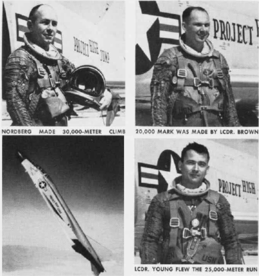 In early 1962, the U.S. Navy conducted "Project High Jump" from Naval Air Stations Brunswick, Maine (USA), and Point Mugu, California (USA), during which several McDonnell F4H-1 Phantom IIs captured eight time-to-climb records. This collage shows three pilots, LCDR Del W. Nordberg, LCDR F. Taylor Brown, LCDR John W. Young, and the F4H-1 BuNo 148423.